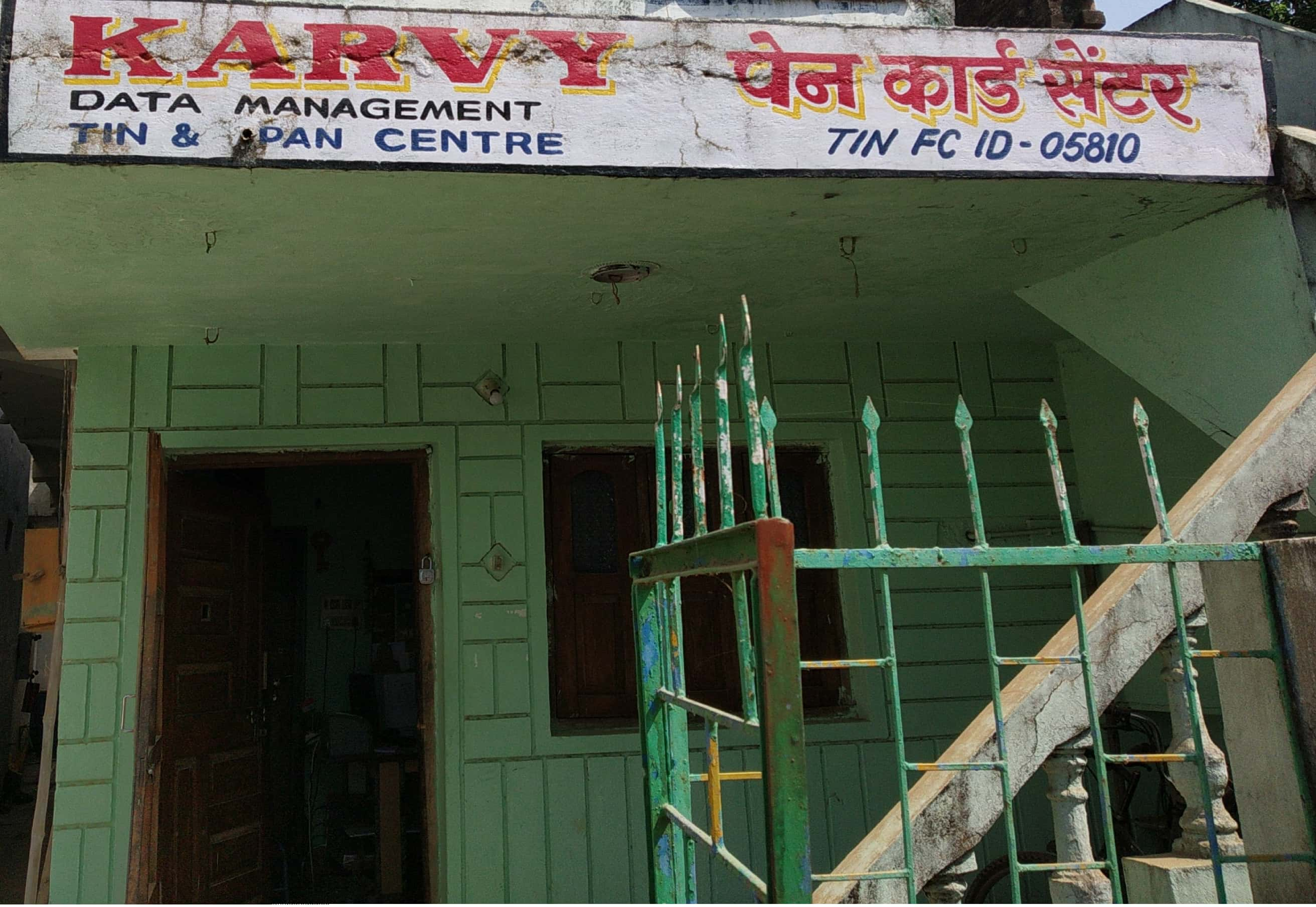 building of karvy data office in balaghat